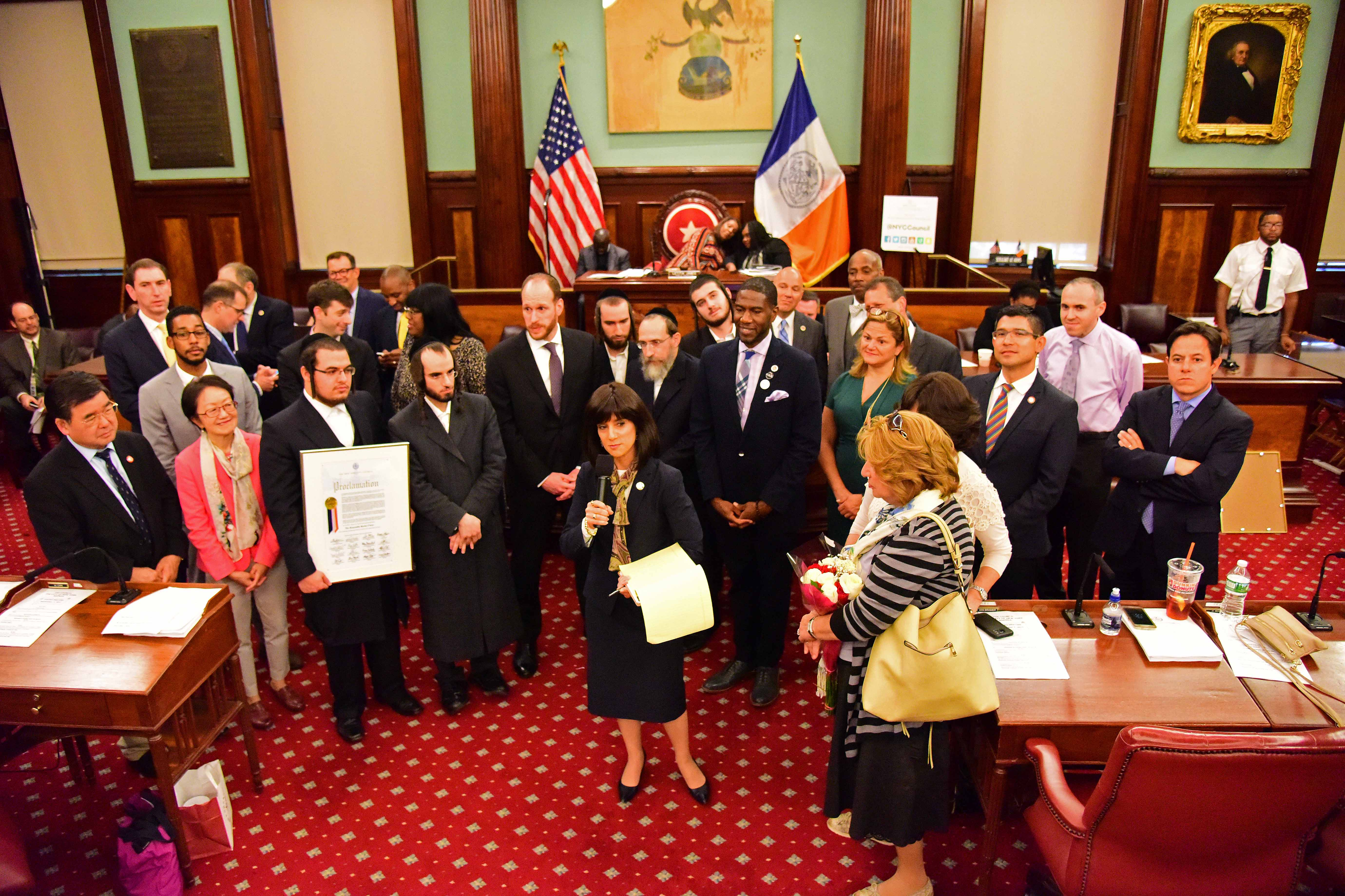 Surrounded by family and members of the NY City Council, the Honorable Rachel "Ruchie" Freier accepts her proclamation.